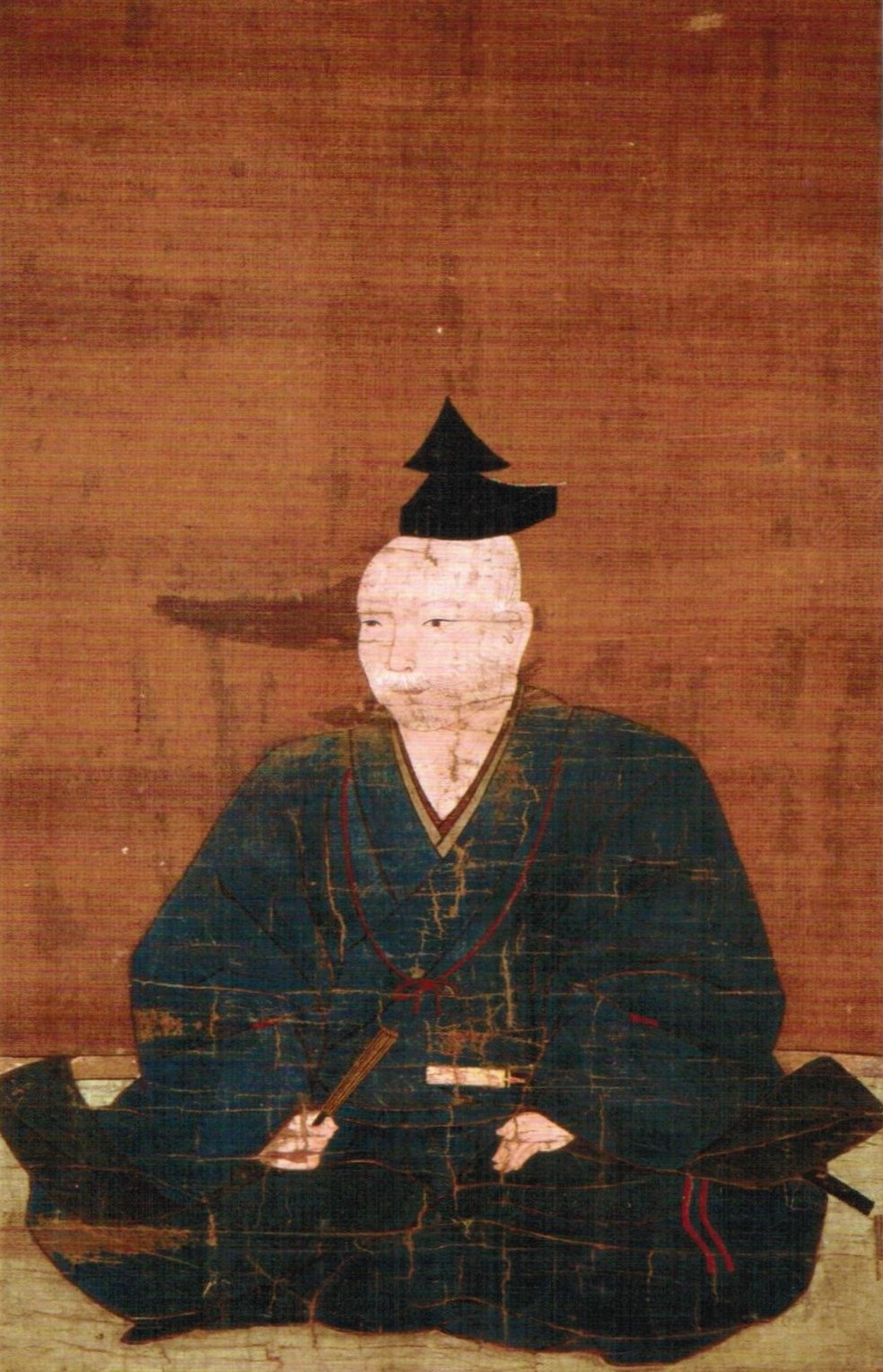 Portrait of Oyamada Dewa-no-kami Nobuari, painted in Sengoku period, a collection of Chōshōji Temple in Tsuru, Yamanashi, Japan.